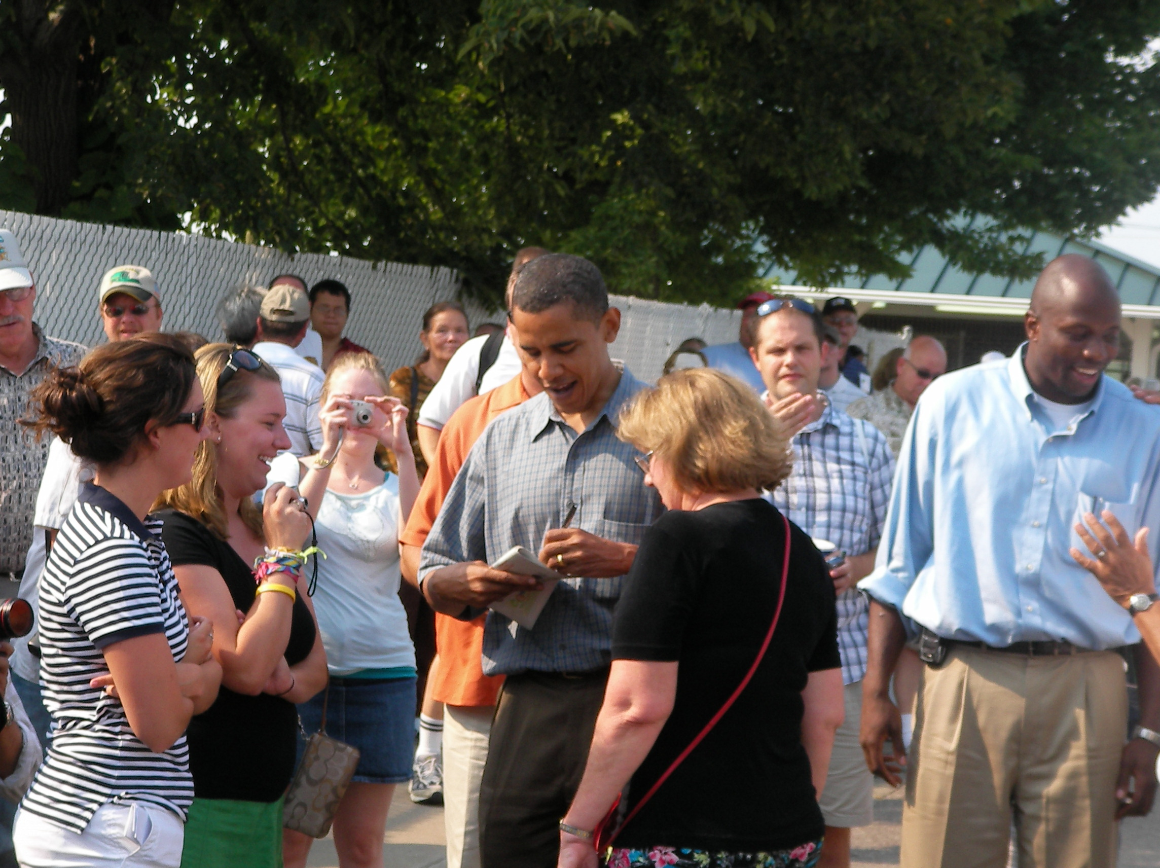 Illinois Sen. Barack Obama, a Democratic presidential candidate, strolls the Iowa State fairgrounds Aug. 16 in Des Moines.